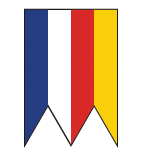 Flag